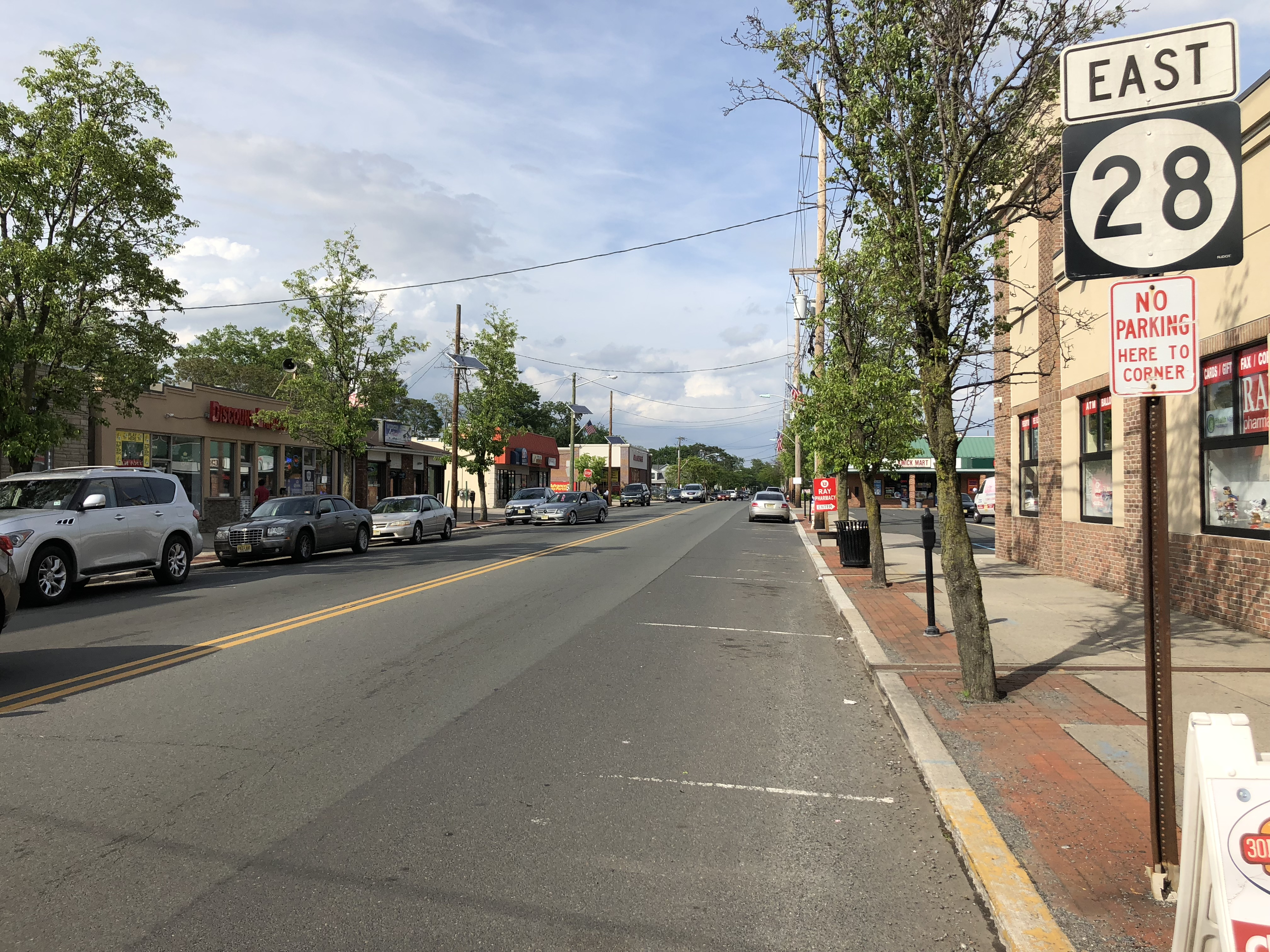 View east along New Jersey State Route 28 (North Avenue) at Middlesex County Route 529 (Washington Avenue) in Dunellen, Middlesex County, New Jersey